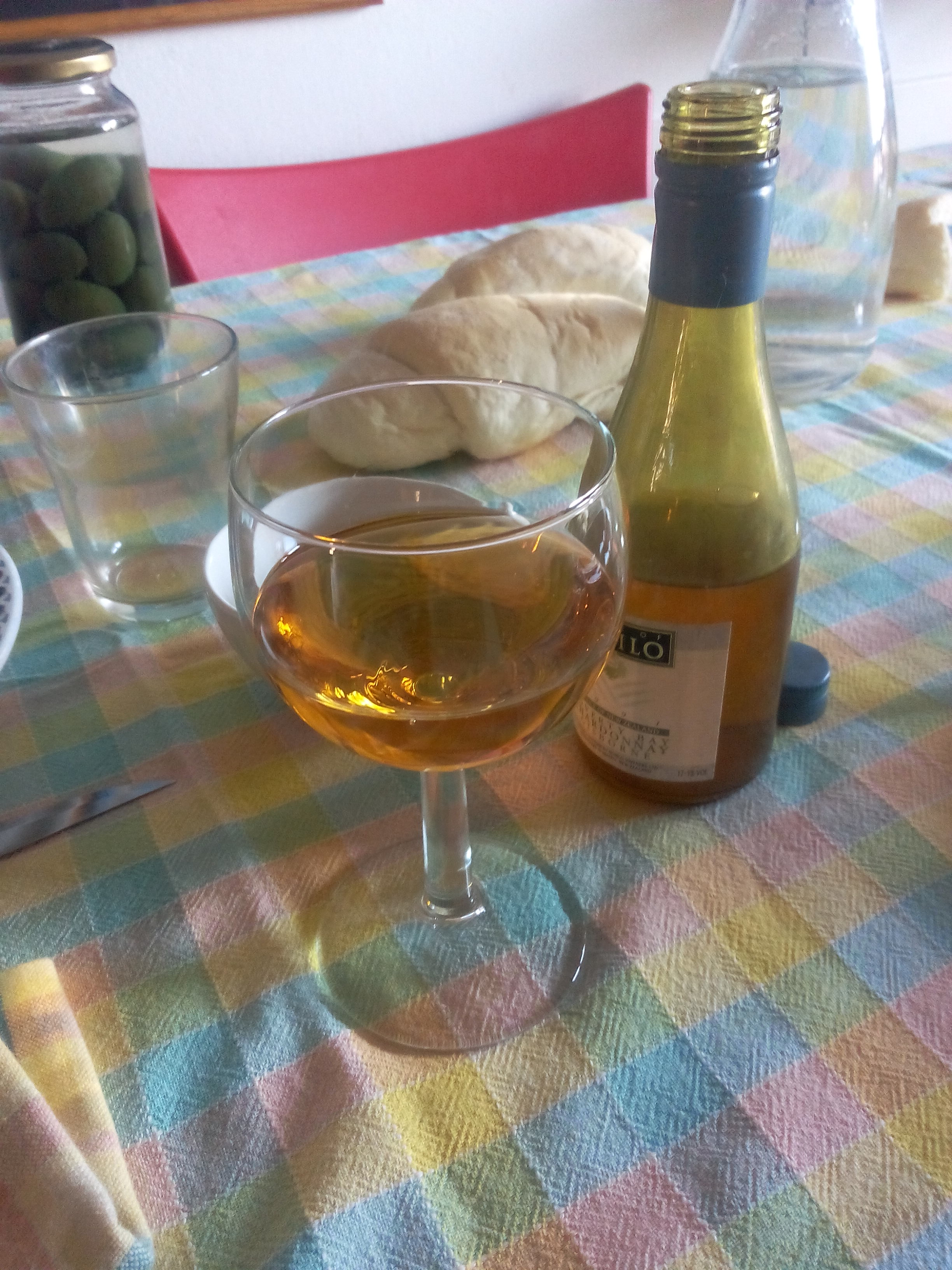 Poverty Bay Chardonnay Nobilo - New Zeland